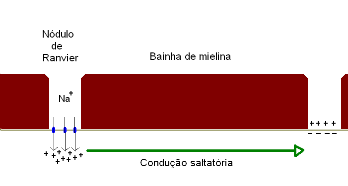 Action potentials propagation.